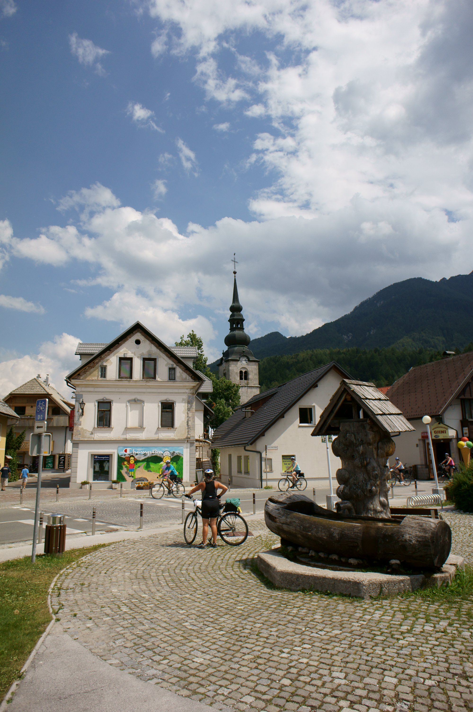 Kranjska Gora, Slovenia.